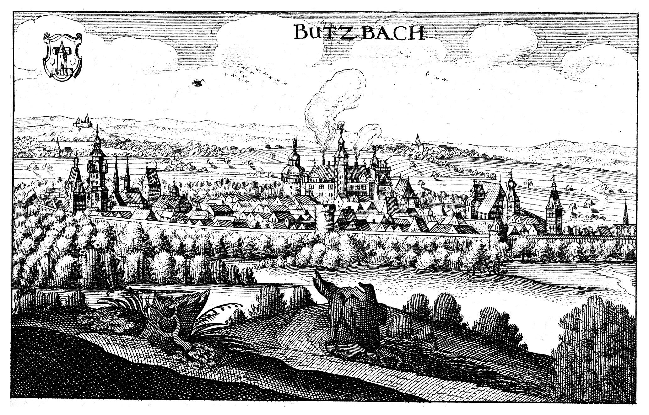 This is a scan of the historical document: Title: Butzbach - Topographia Hassiae language: german